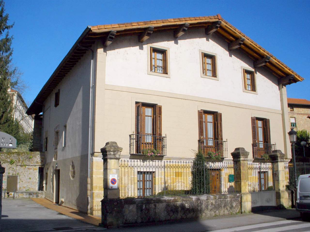 Hotel Konbenio, en Amorebieta